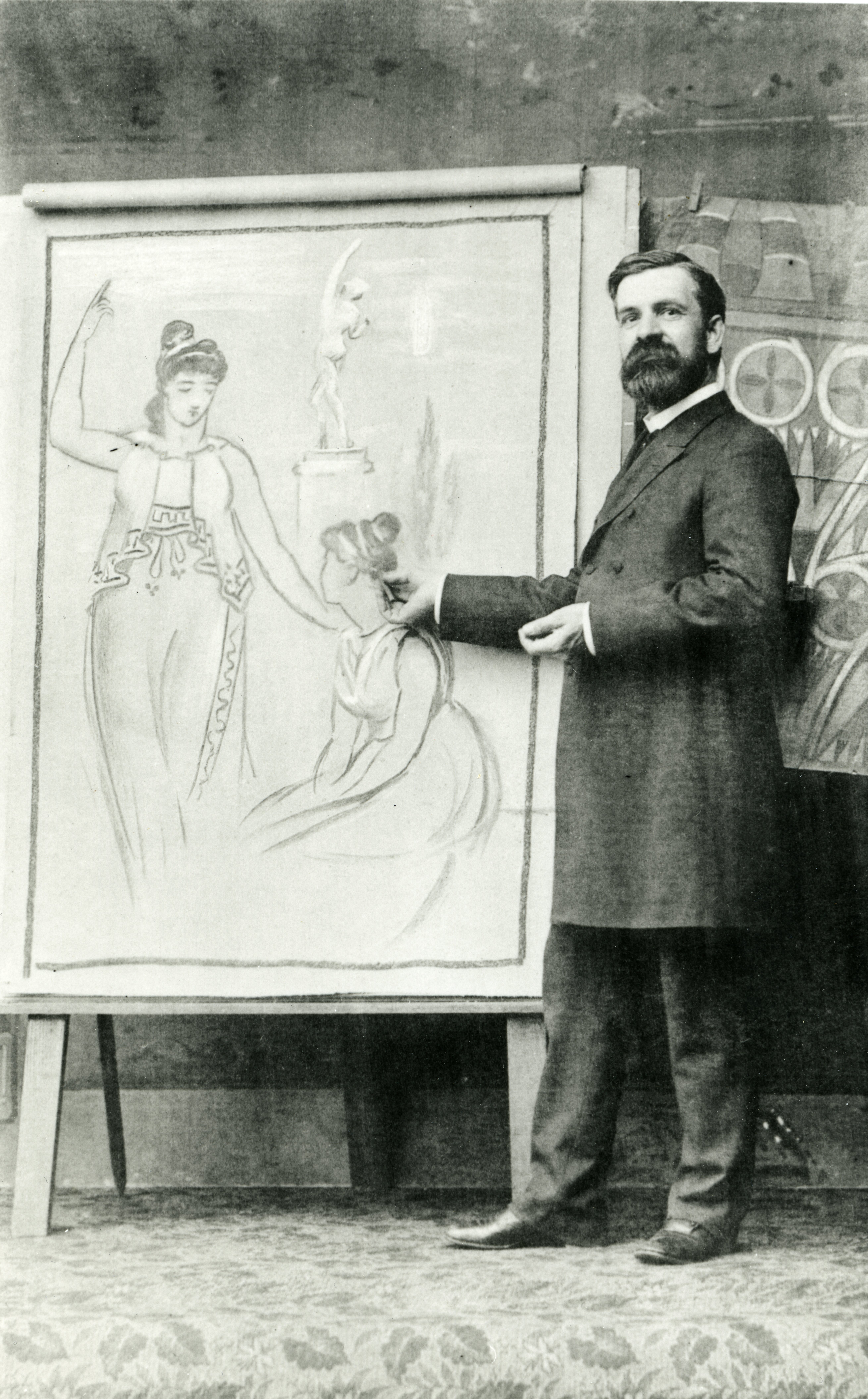 Image of William M.R. French first director of the Art Institute of Chicago